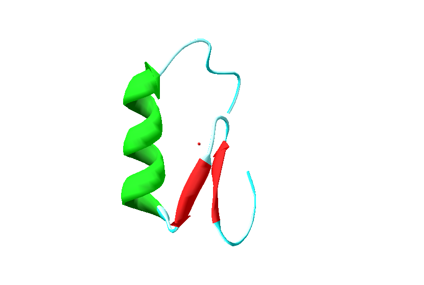 The structure of C2H2 type zinc finger derived from Arabidopsis thaliana. Marked red are beta-sheet domain, and marked green is domain of the alpha-helix. Crystallographic data visualization program, Swiss-made ​​PDBViewer 4.0.1 from PDB file:1NJQ [2]